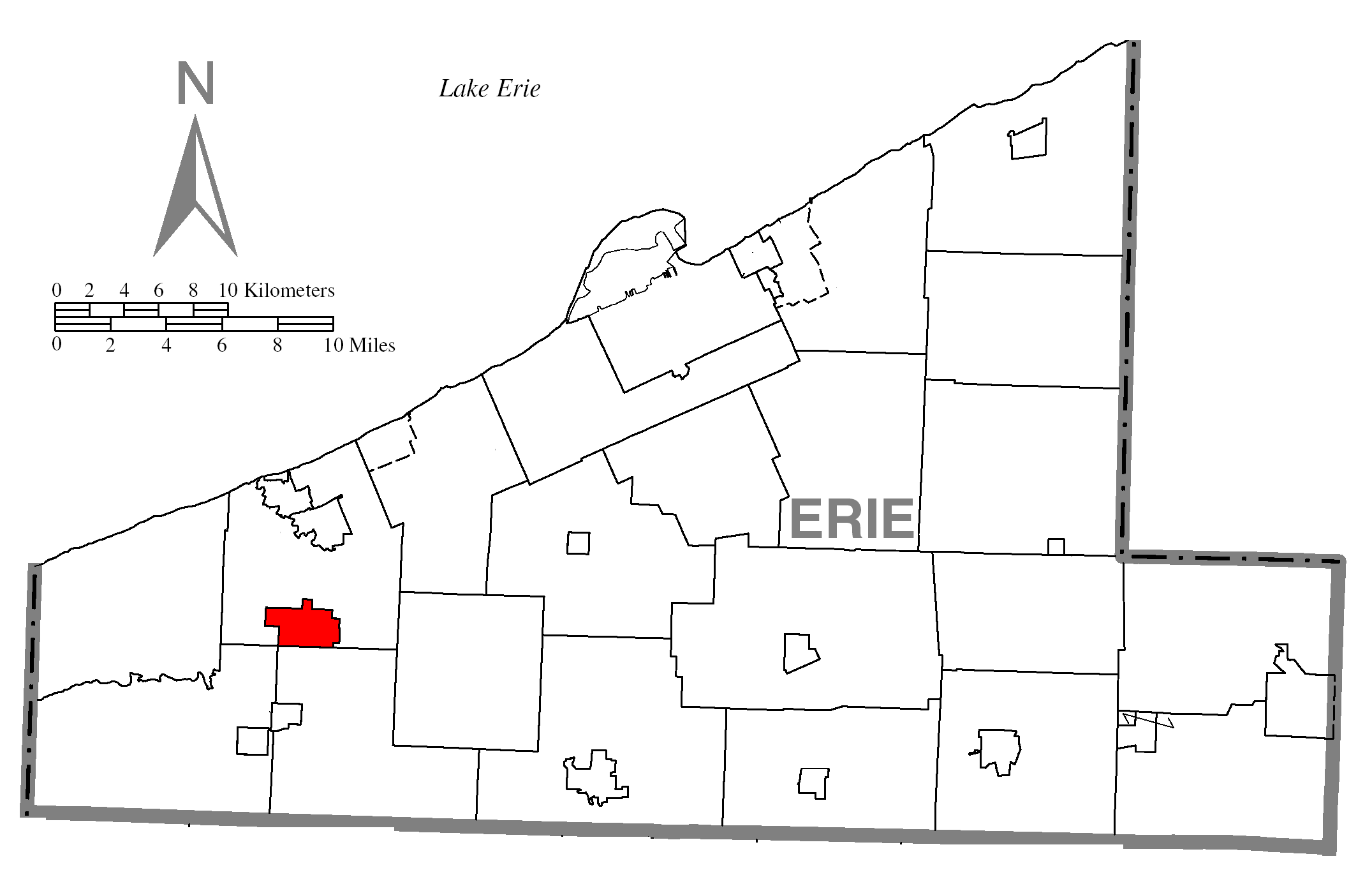 A map of Erie County showing Platea, Pennsylvania (alternate) highlighted on the map.